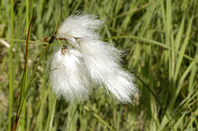 Picture taken in Commanster, Belgian High Ardennes . Species: Eriophorum angustifolium fruit